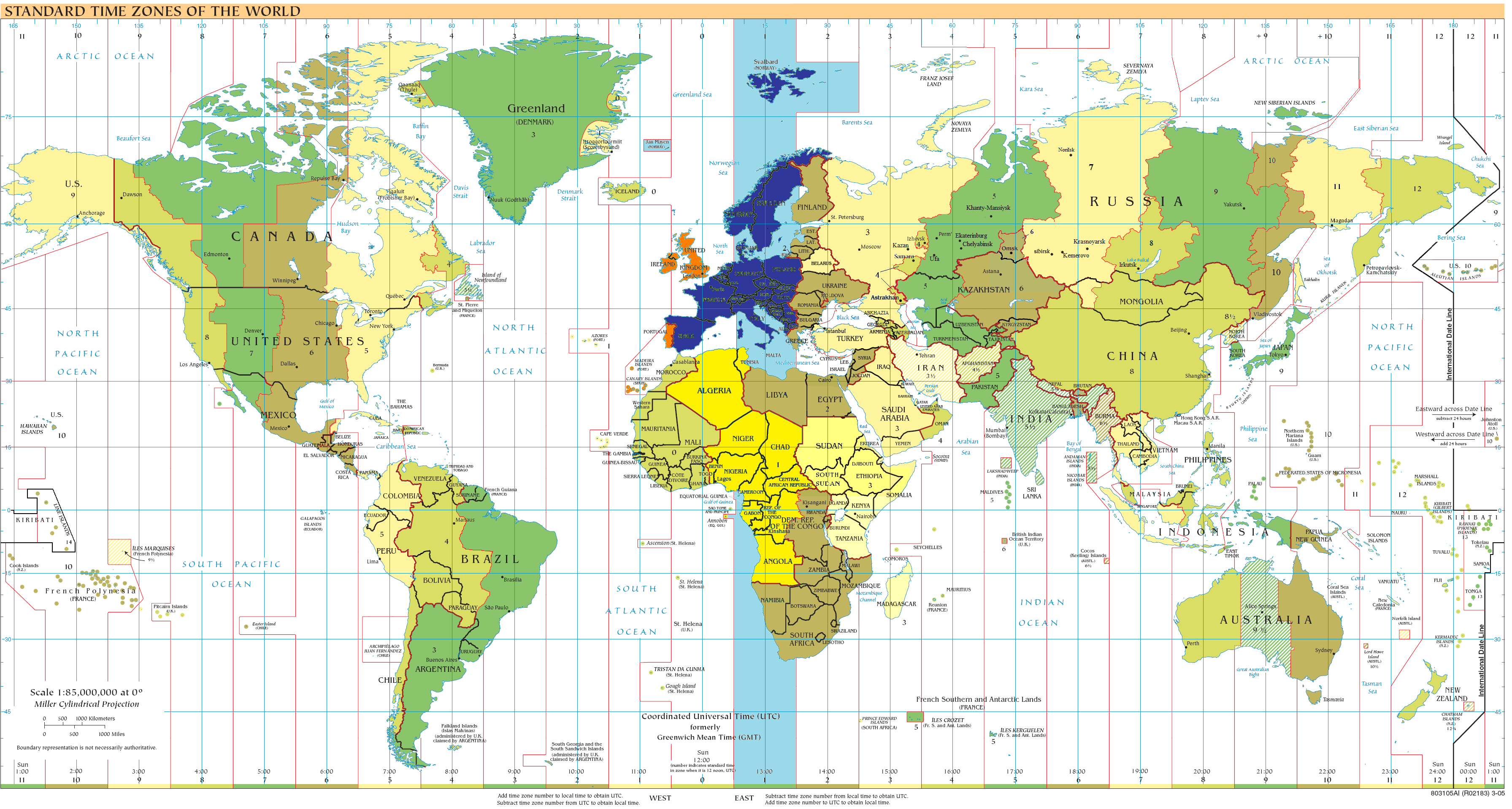 Standard time zones of the world.png highlighting UTC+1 Dark blue: UTC+1 Northern Hemisphere Winter/Southern Summer Orange: UTC+1 Northern Hemisphere Summer/Southern Winter Yellow: UTC+1 all year round Light Blue: UTC+1 sea areas